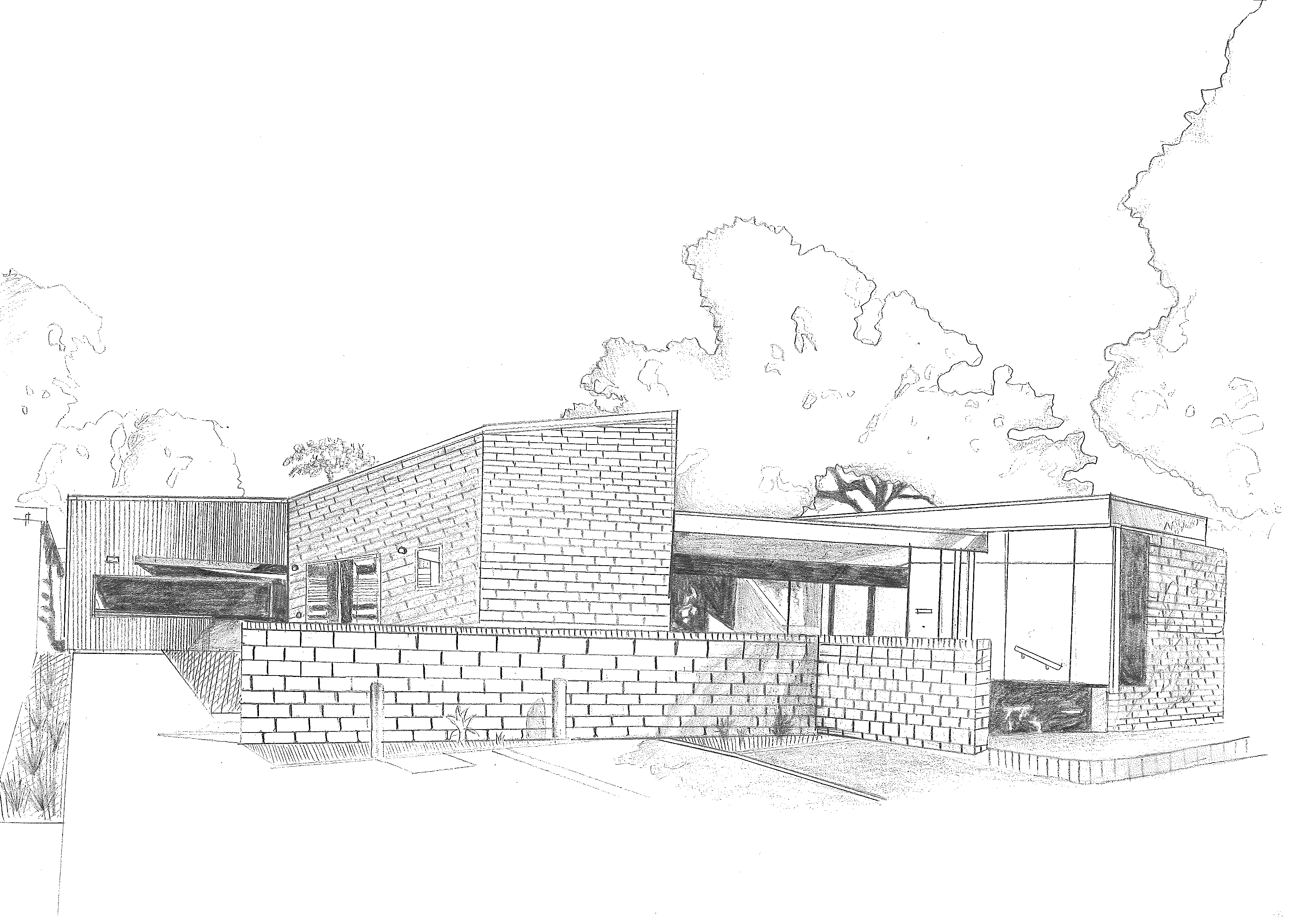 Exterior View